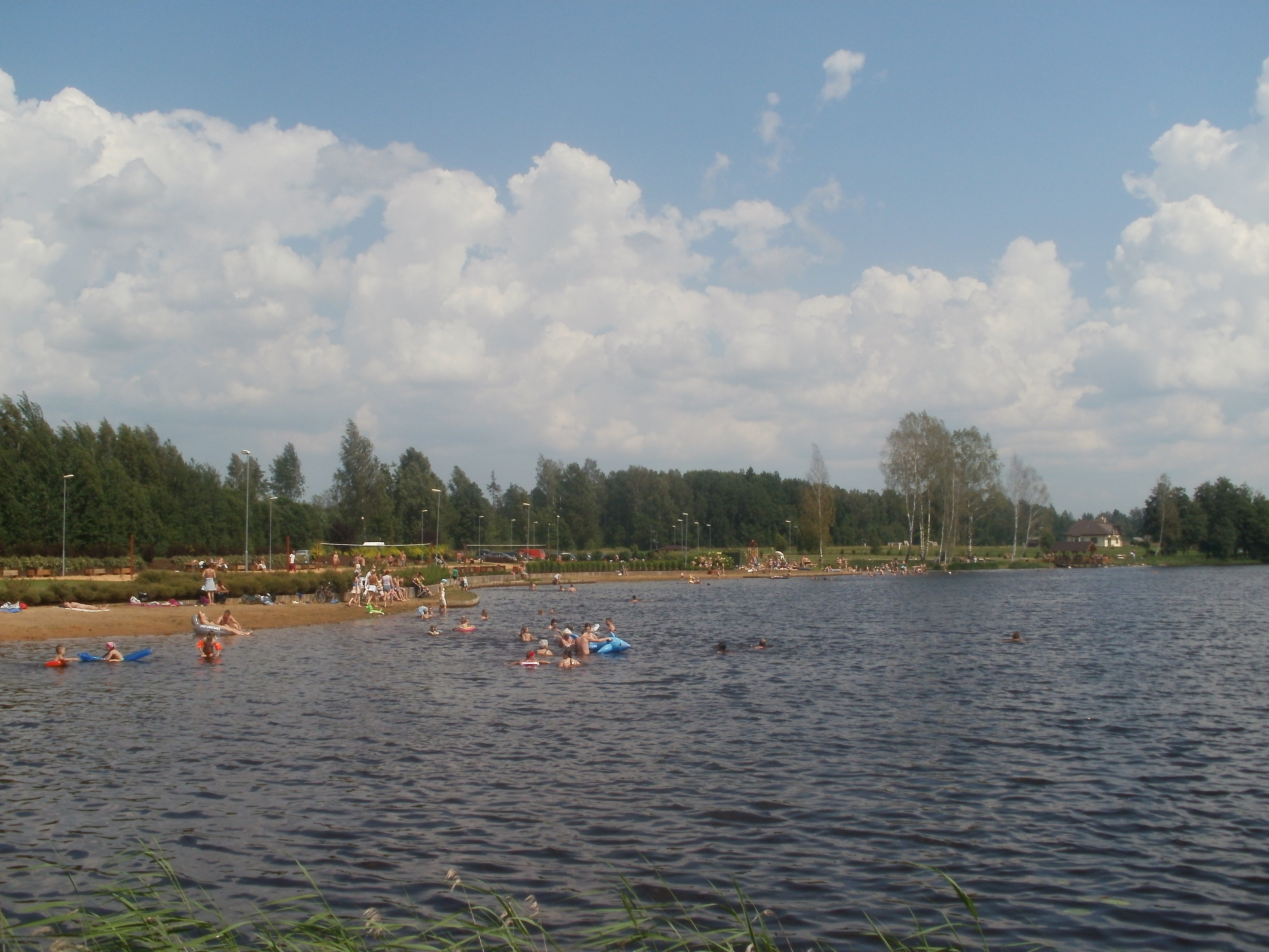 Beach on Vecais ezers